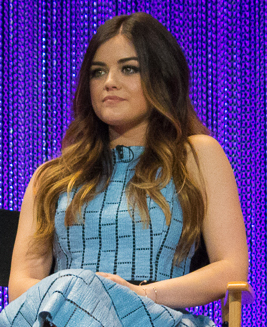 The core cast of "Pretty Little Liars" at The Paley Center For Media's PaleyFest 2014 Honoring "Pretty Little Liars". From left: Troian Bellisario, Ashley Benson, Lucy Hale, Shay Mitchell, and Sasha Pieterse.